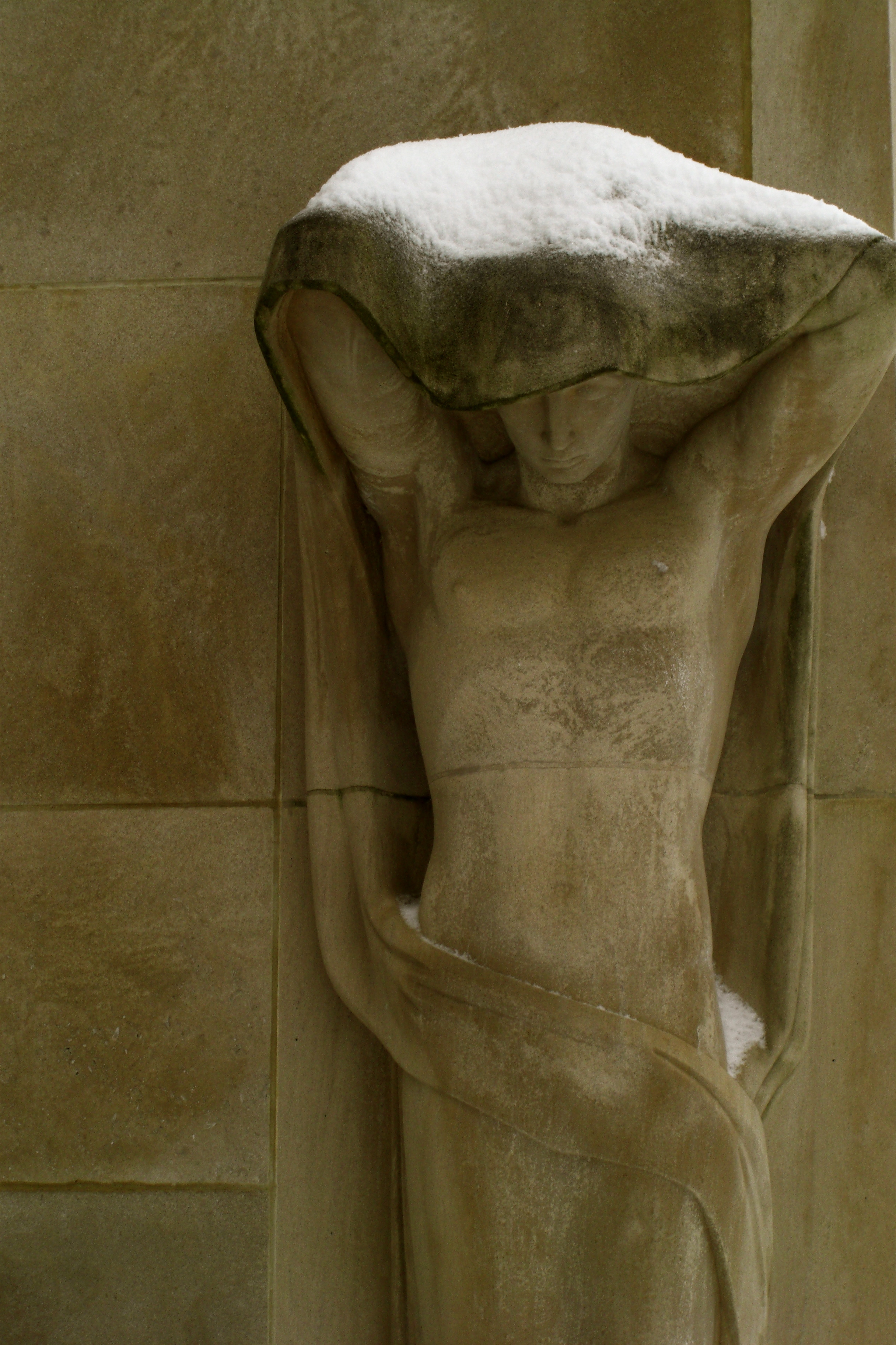 One of the war memorial pylons on a snowy day at Virginia Tech